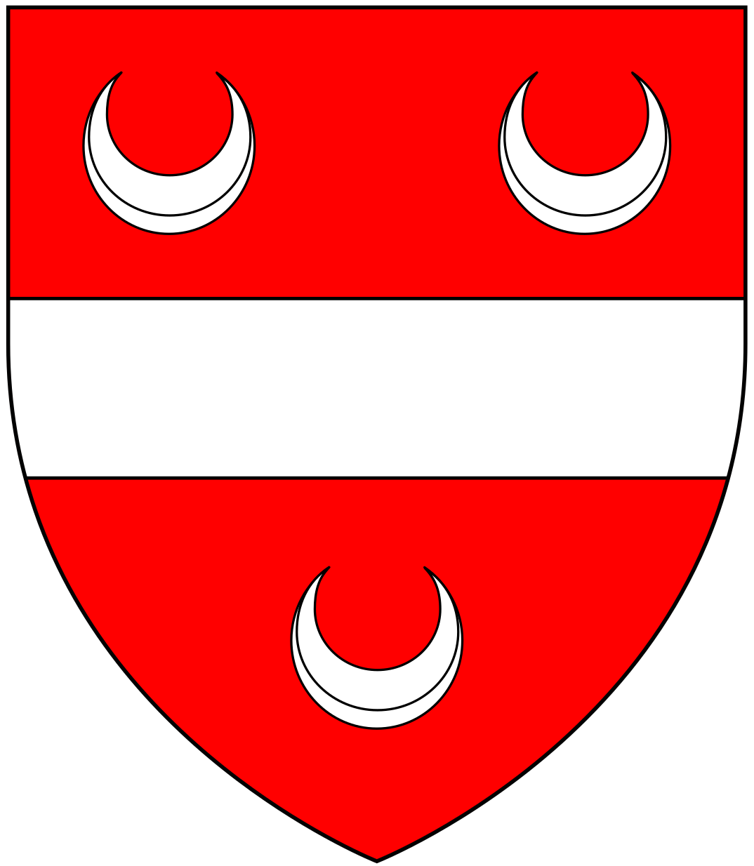 Arms of Holway of Holway in the parish of North Lew, Devon: Gules, a fesse between three crescents argent (Source: Pole, Sir William (d.1635), Collections Towards a Description of the County of Devon, Sir John-William de la Pole (ed.), London, 1791, p.488)